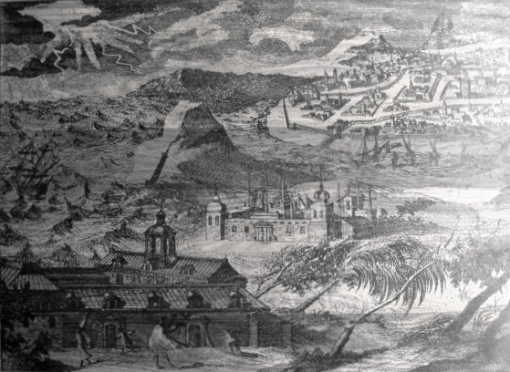 Foundation of the seminary in Ayutthaya, Siam. 17th century print.